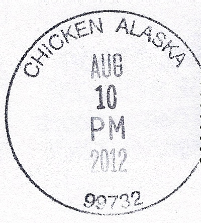 scanned correspondence